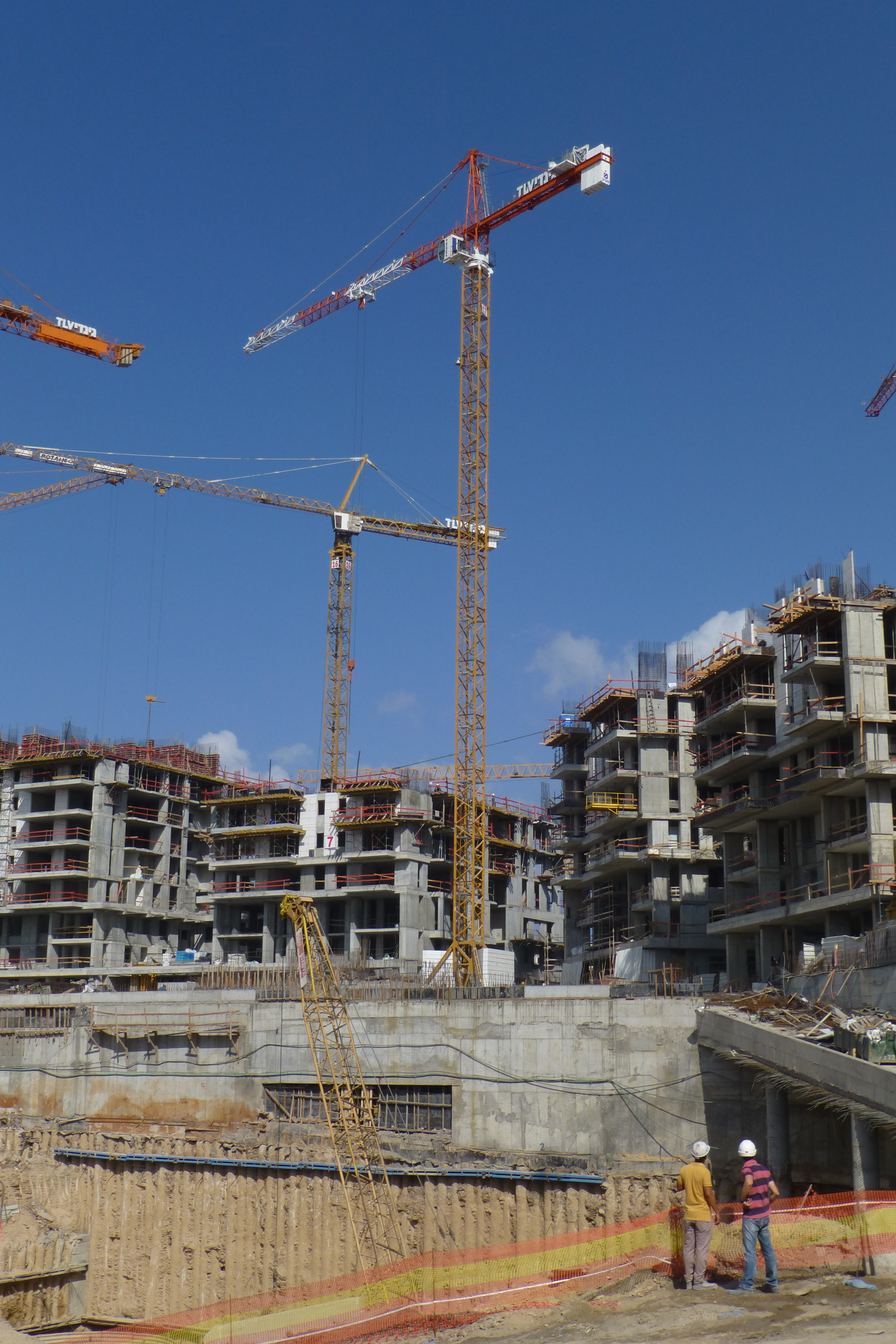 Begin Road, Tel Aviv-Yafo